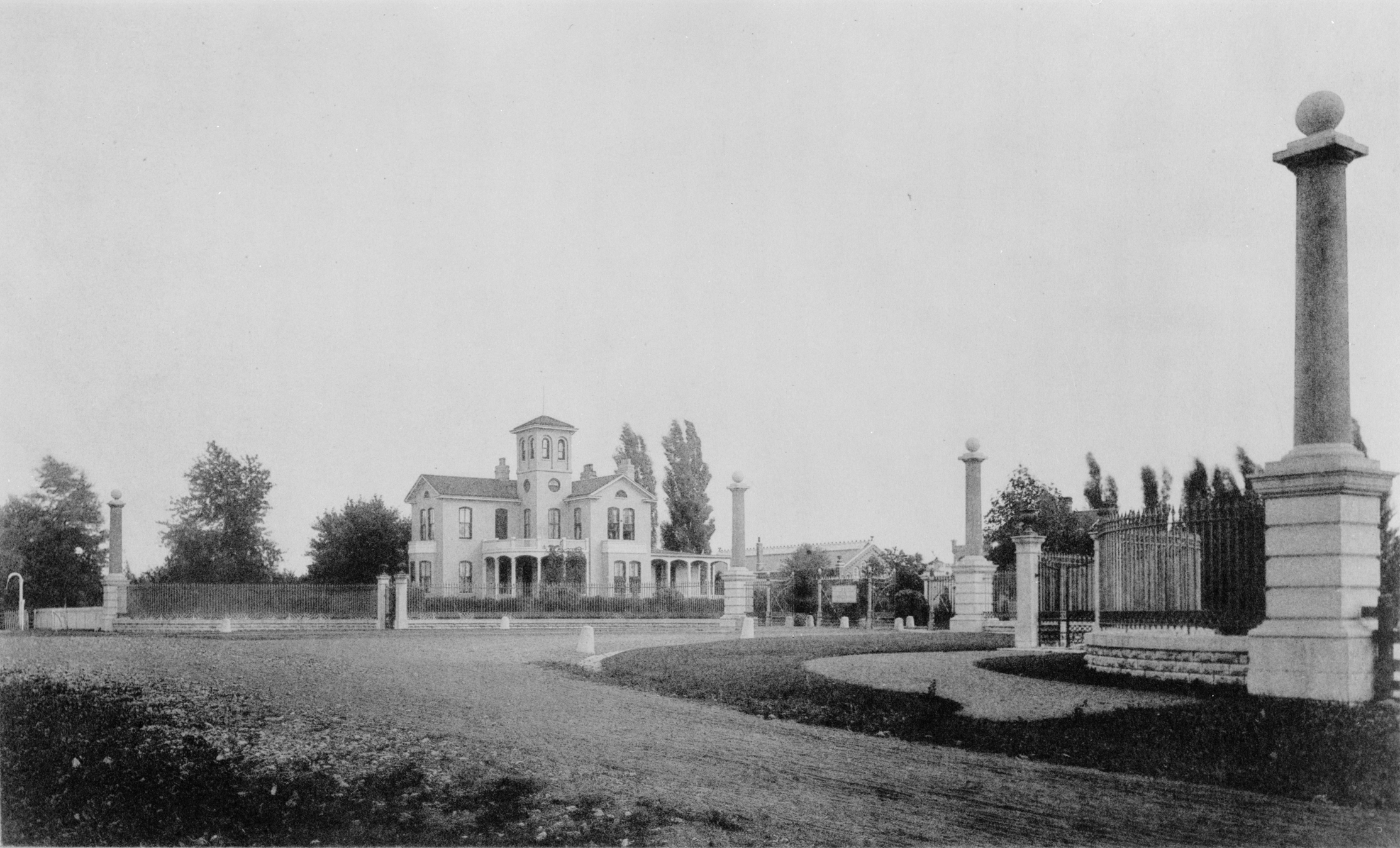 North Gate and superintendent's house at Tower Grove Park in St. Louis, Missouri, United States. Photocopy of an artotype originally published in Tower Grove Park of the City of St. Louis (1883) by David MacAdam, which attributes the book's photos to Robert Benecke (p. 92).